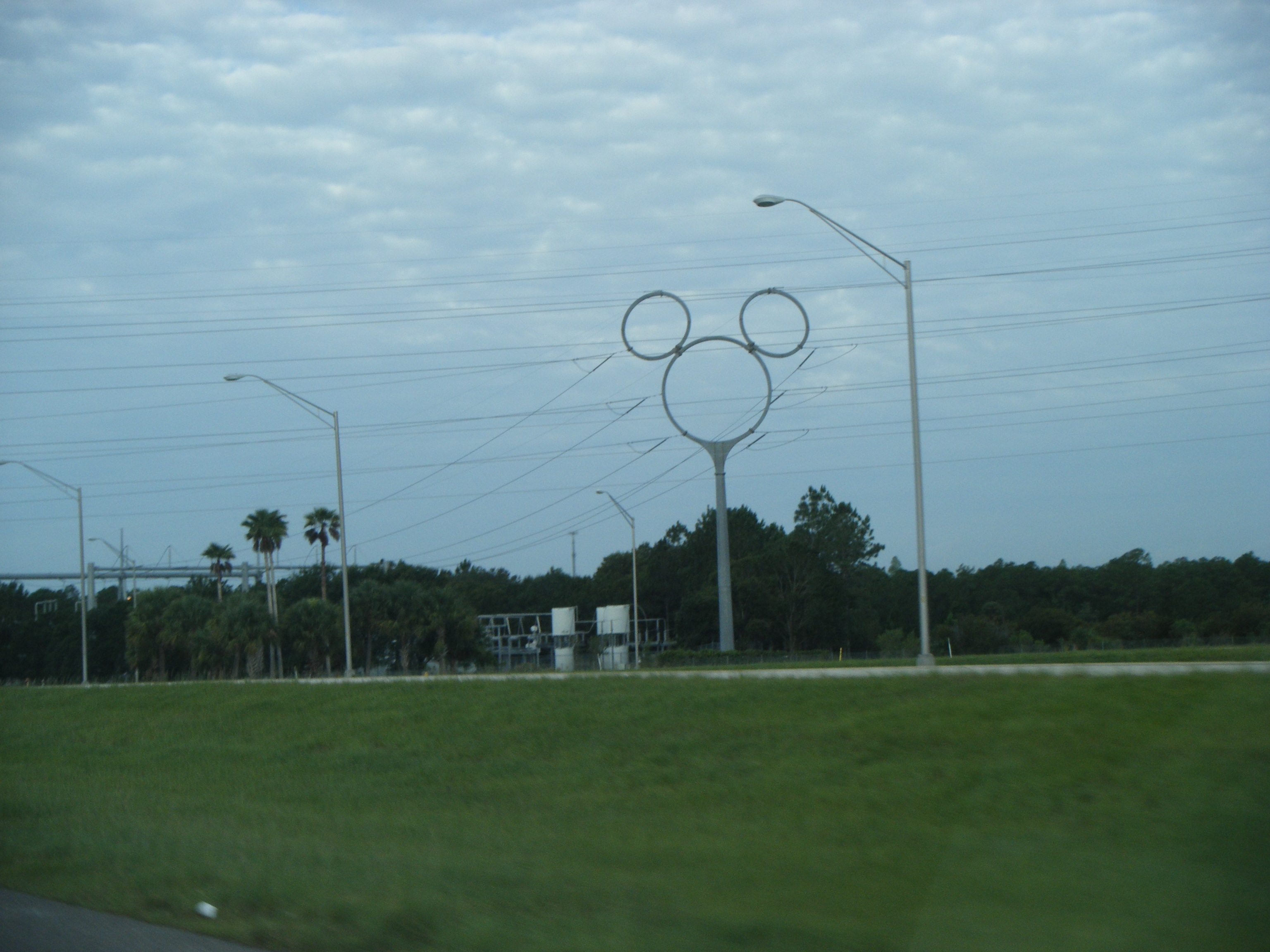 An electric transmission tower in the shape of Mickey Mouse near the junction of Interstate 4 and World Drive in Celebration, Florida